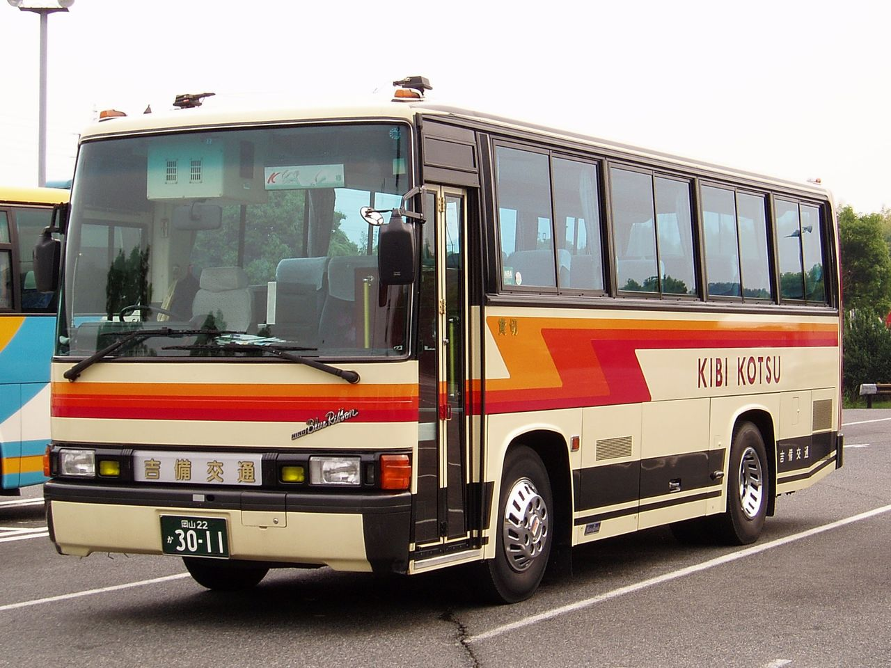 Kibi Kotsu Hino P-RU192AA at Michiguchi Perking Area